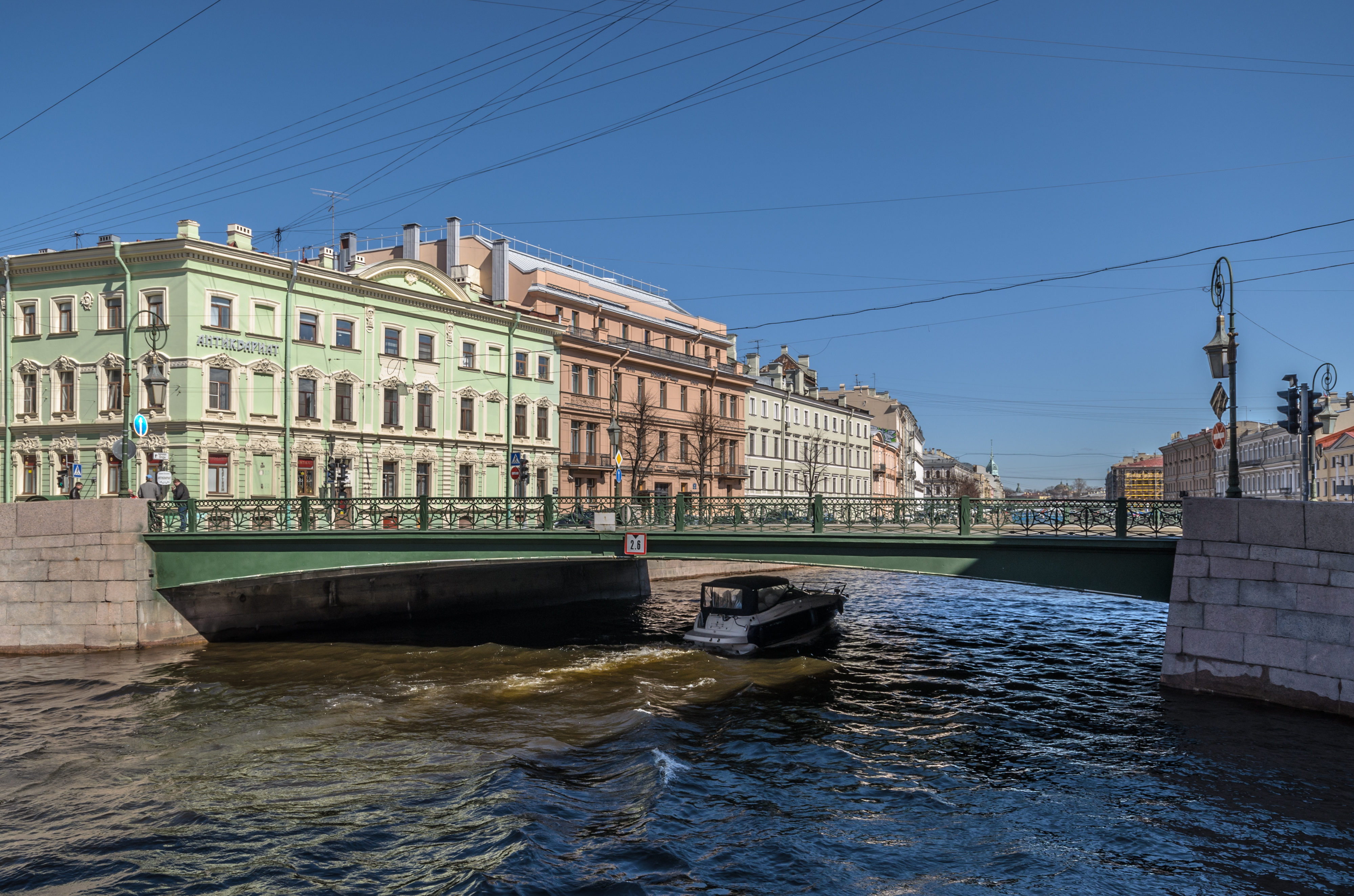 Fonarny bridge in Saint Petersburg